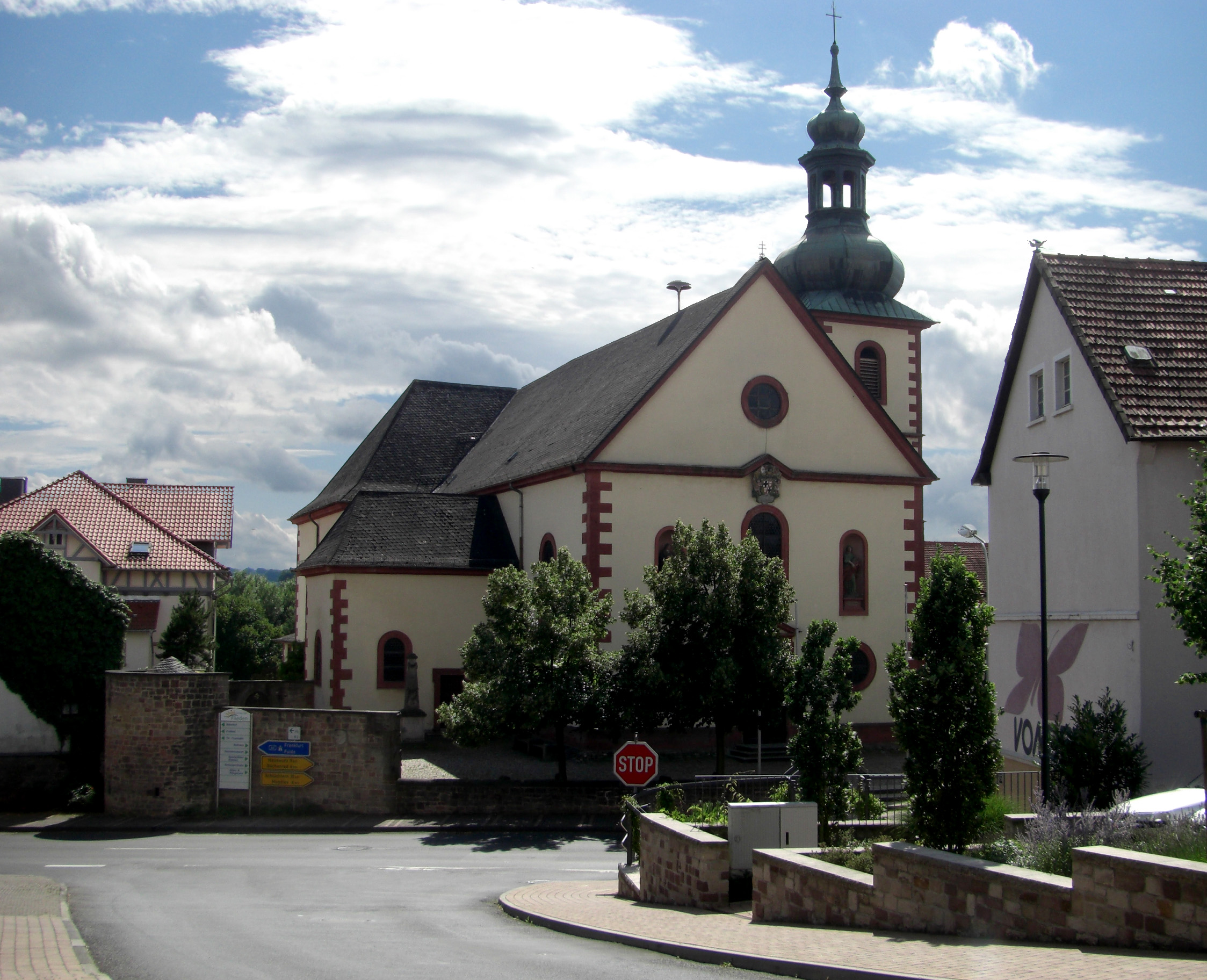 Front porch of St. Goar, Flieden